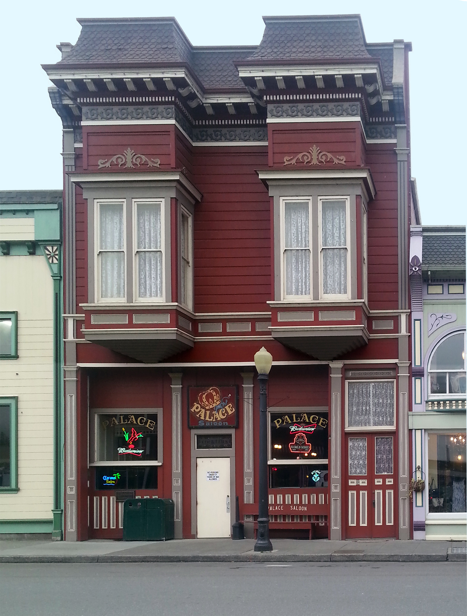 341-353 Main Street (c) 1902 M.H. Donnelly Building also called the Palace Saloon is a two-story commercial building with two bays and a false-front. When it was built for the brothers Donnelly in 1902, the first floor was a saloon and had offices upstairs. Until a fire in 2007, the building was sided in asbestos shingles but was subsequently restored to original condition. It has mansard roofs on the bay towers. The lower floor facade has been changed by the addition of short, modern windows above lower siding. It is frequently called the "furthest western bar in the conterminous United States." The Palace Saloon/Donnelly building is a contributing structure to the Ferndale Main Street Historic District.